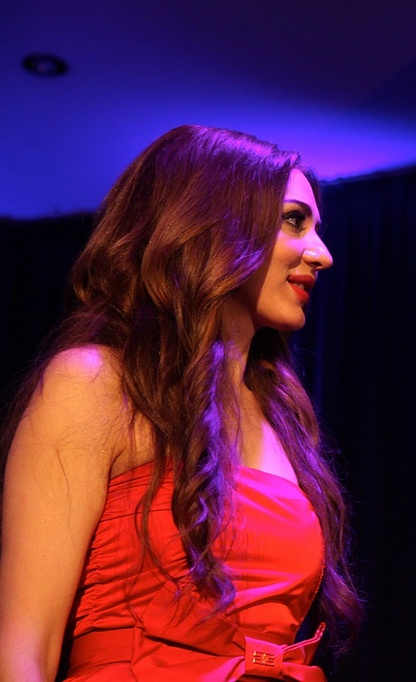 Sabina Babayeva